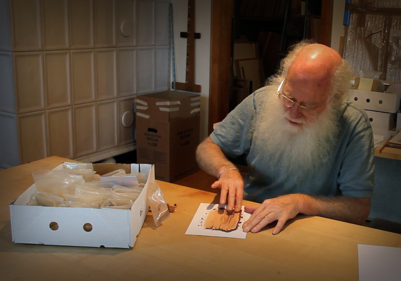 herman de vries tijdens het maken van een aarduitwrijving (2013)